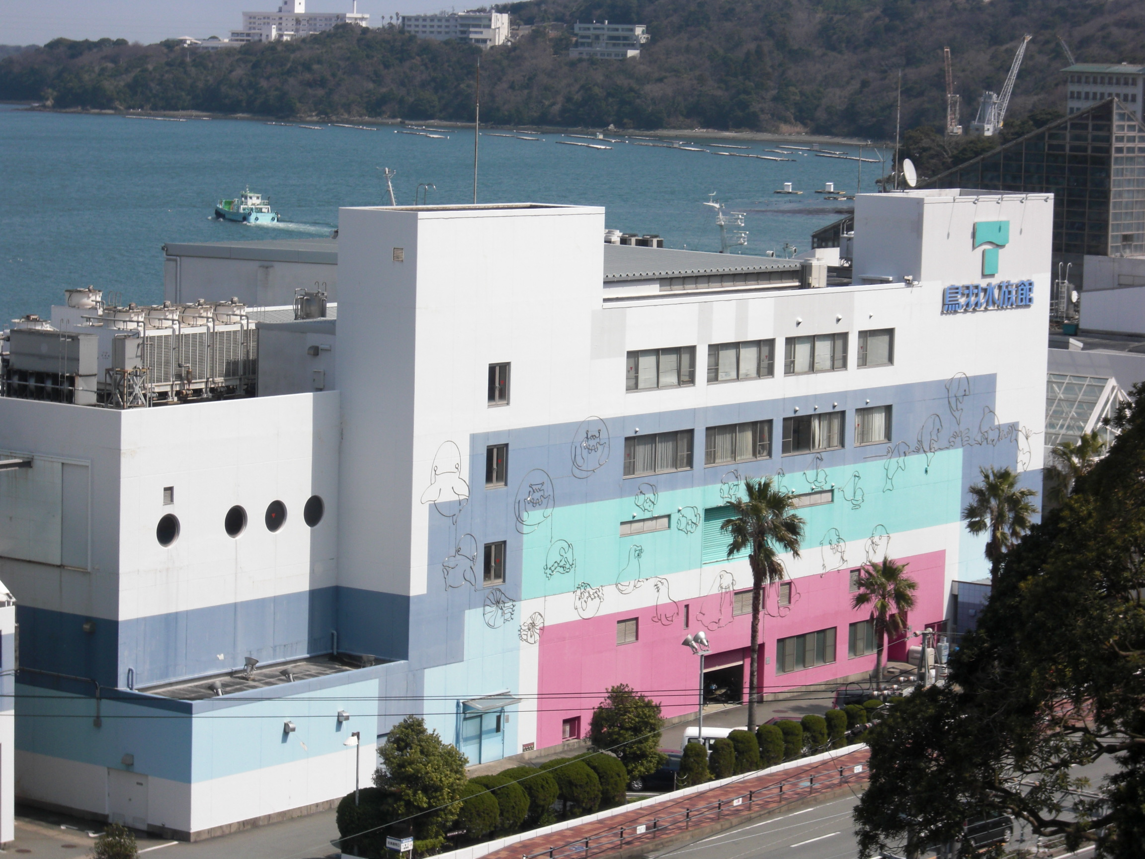 This is a photo of Toba Aquarium, which is located in Toba, Mie, Japan. This was taken from Toba castle site.